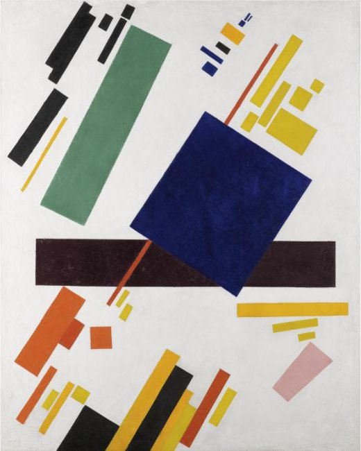 Suprematist Composition, oil painting by Kazimir Malevich 1916